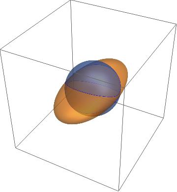 Intersection of a sphere and an ellipsoid. Created by me in Mathematica.